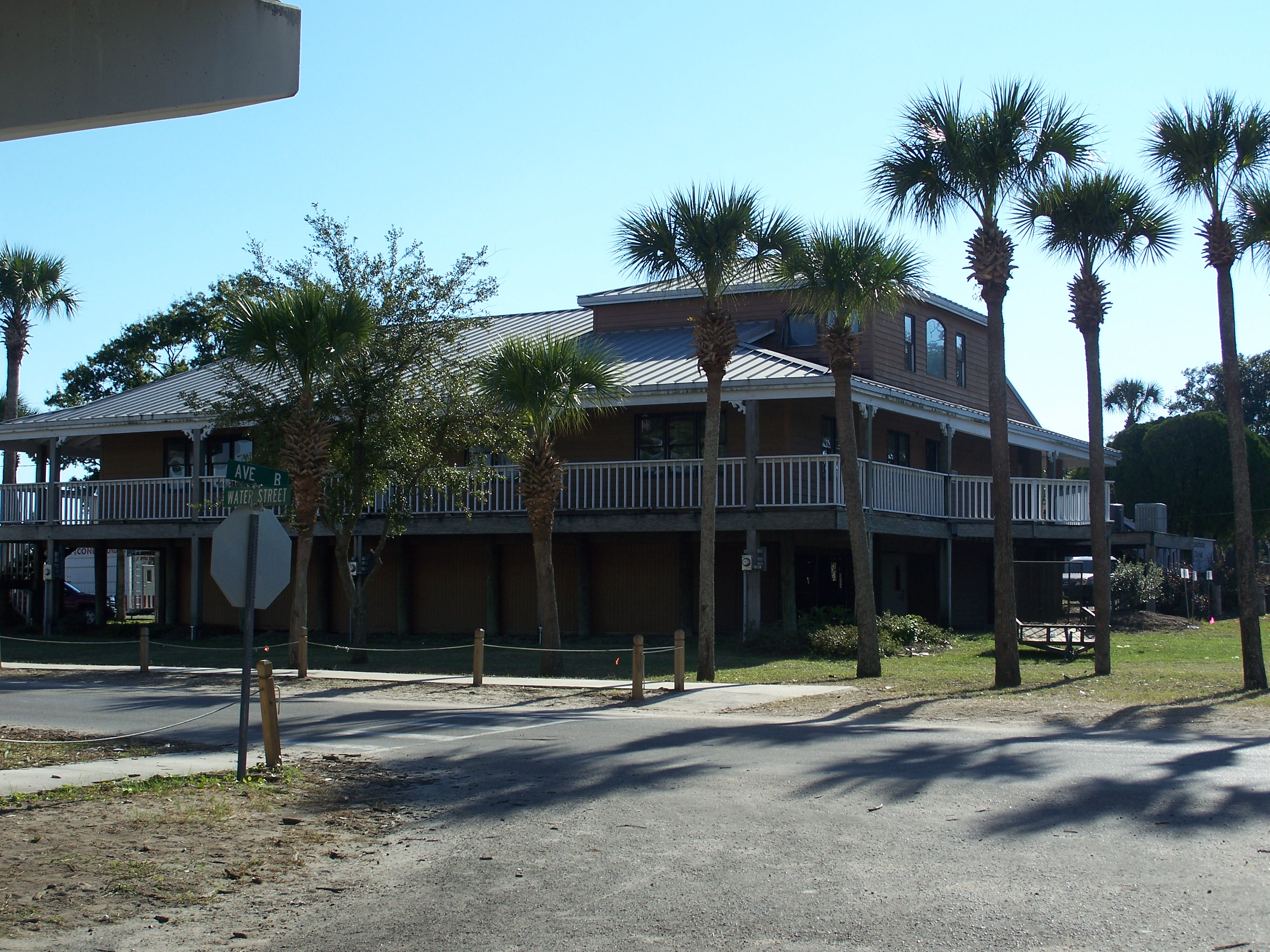 Apalachicola, Florida: City hall